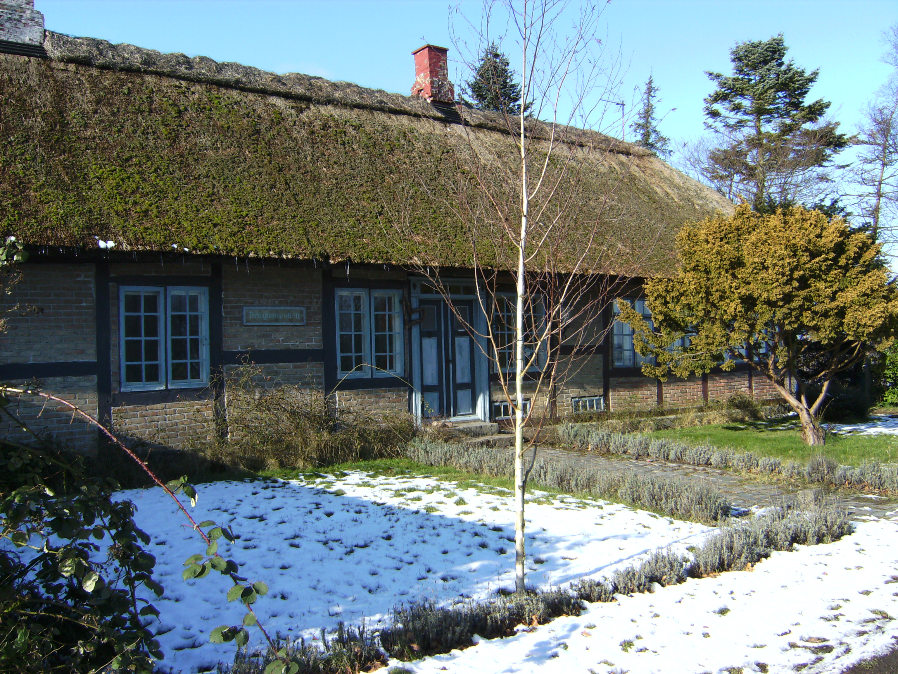 Former school